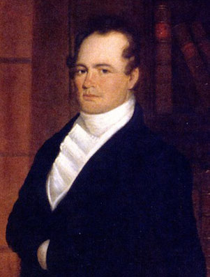 Kentucky Congressman John Speed Smith, cropped from the portrait of his family painted by Chester Harding (1792-1866) in 1819